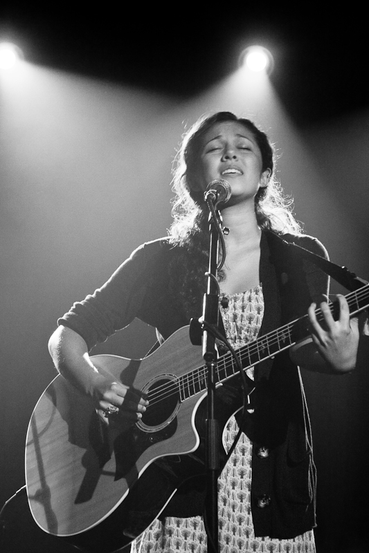 Kina Grannis